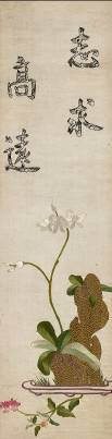 中文（台灣）: 李梅樹作品：Birds character Embroidering，水墨刺繡。